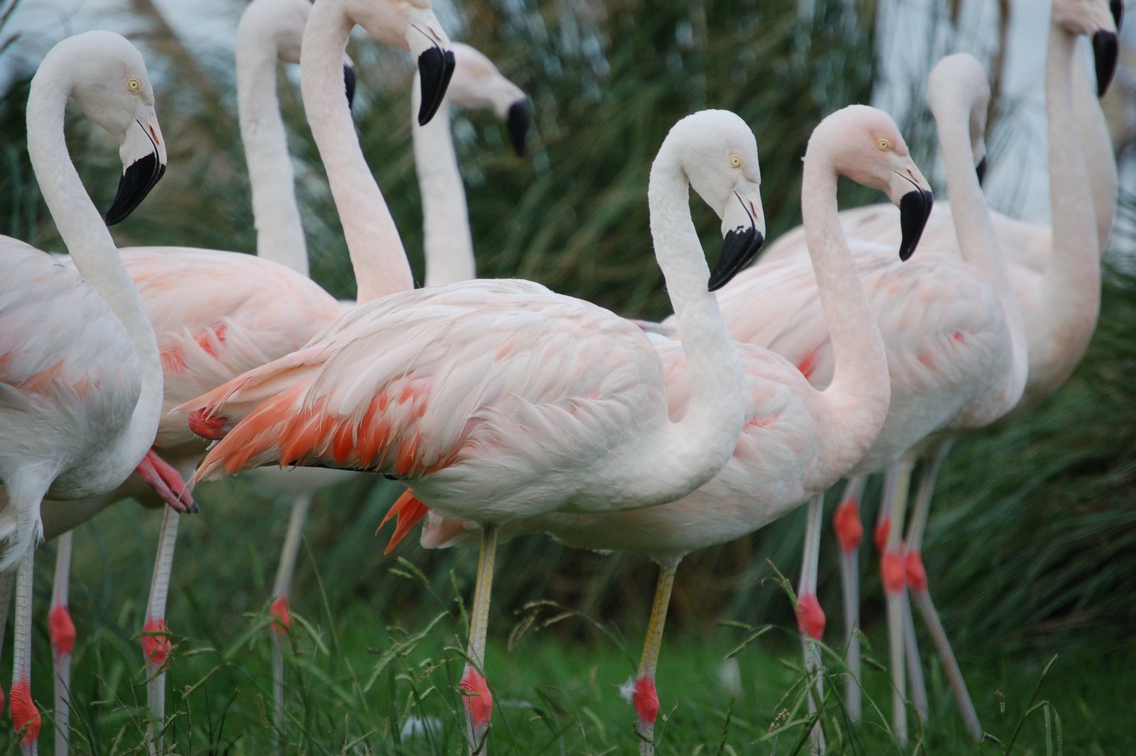 Phoenicopterus_chilensis_FLAMENCO